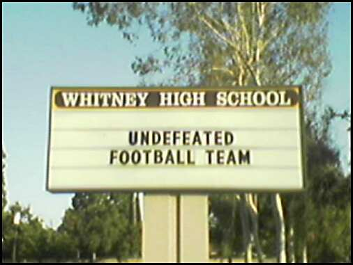 Whitney High School